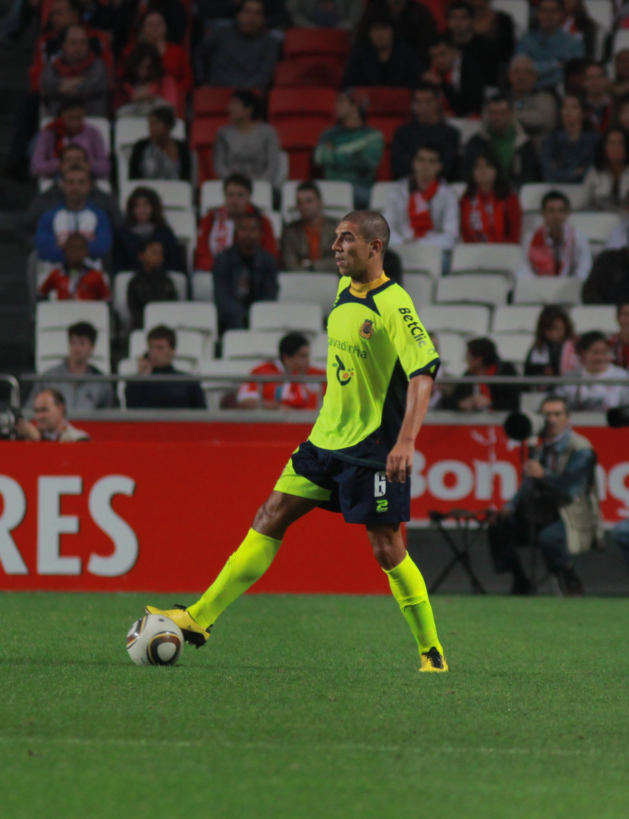 Diogo Santos representing FC Arouca on a match agains SL Benfica. (SL Benfica x FC Arouca, 2010/2011, Portuguese Cup, 3rd round)